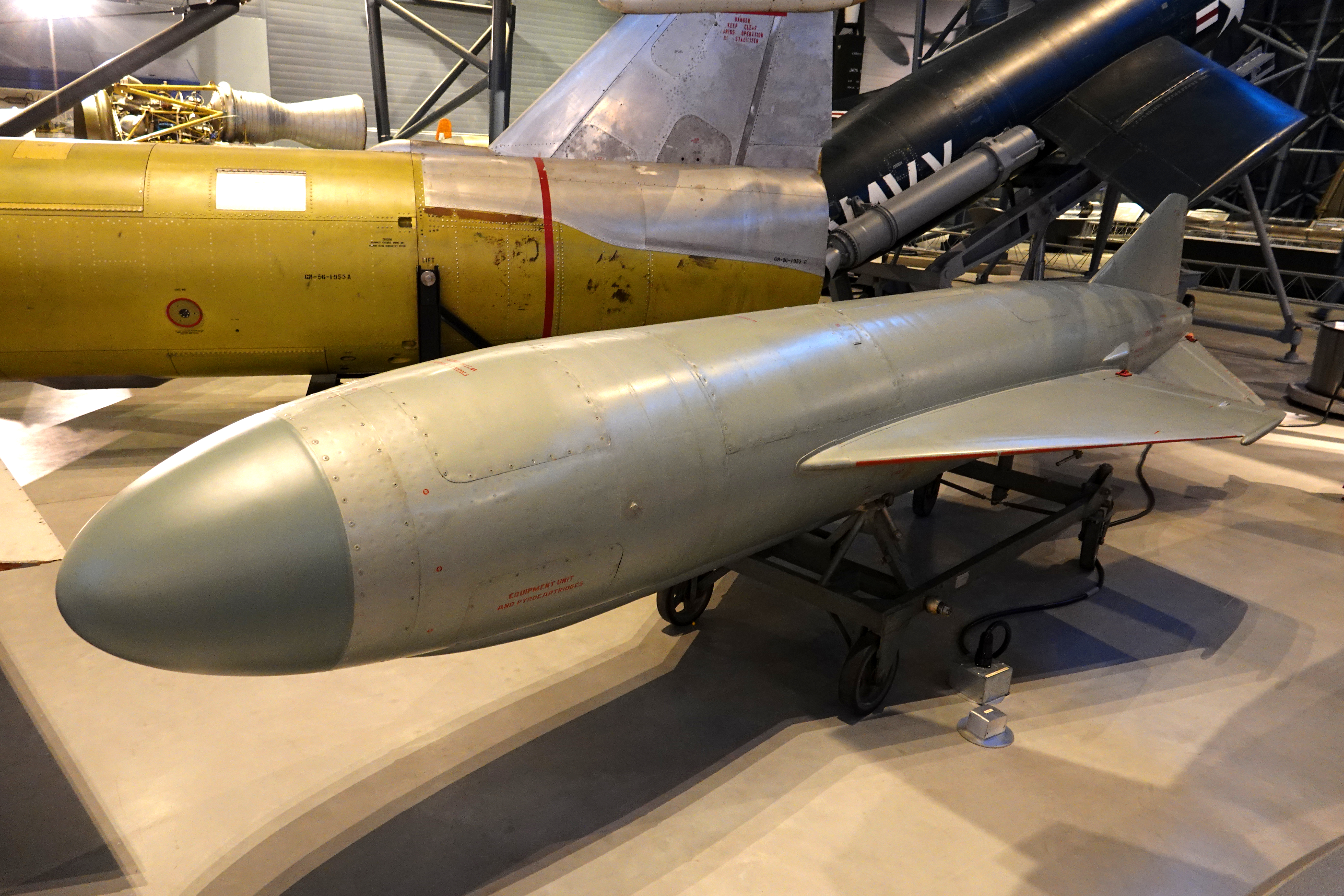 The P-15 Termit (Russian for “termite”) or Styx (NATO code name) is a surface-to-surface, anti-ship missile that the Soviet Navy put into service in l958. A solid fuel booster (not shown here) launched the missile, and a built-in turbojet engine sustained its ﬂight. The Soviet Union supplied its allies with these missiles, some of which saw action in combat. On October 21, 1967, almost five months alter the Arab-Israeli Six-Day War. Egyptian Termit missiles sank the Israeli destroyer Eilat. Picture taken at the National Air and Space Museum's Steven F. Udvar-Hazy Center in Chantilly, Virginia, USA. Length: 6.3 m (20 ft 6 in) Weight: 2,977 kg (6,615 lb) Weight, warhead: 396 kg (880 lb) Range: 42 km (26 mi) Manufacturer: Raduga Design Bureau -- Transferred from the U.S. Air Force